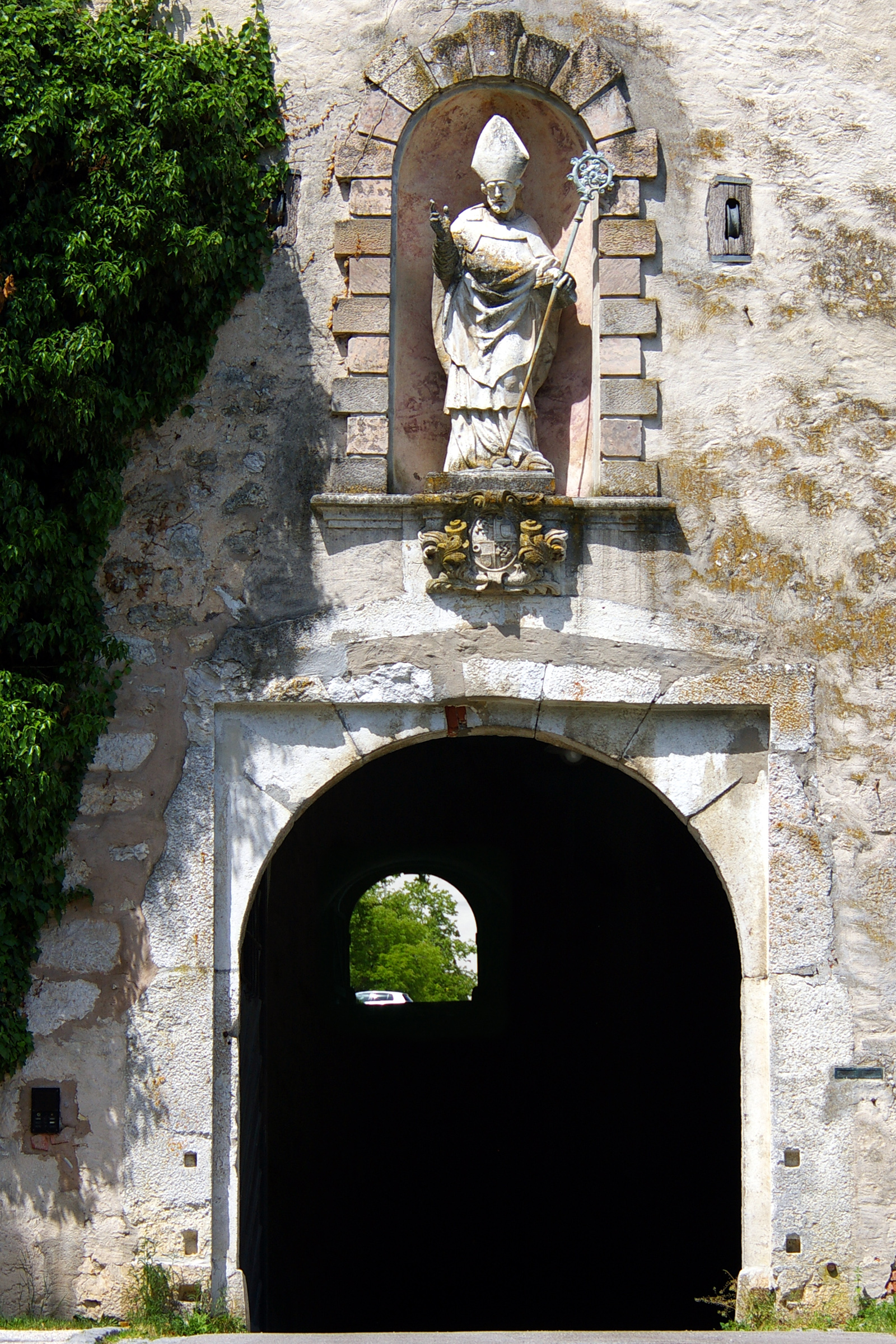 The East-Gate of the Willibaldsburg